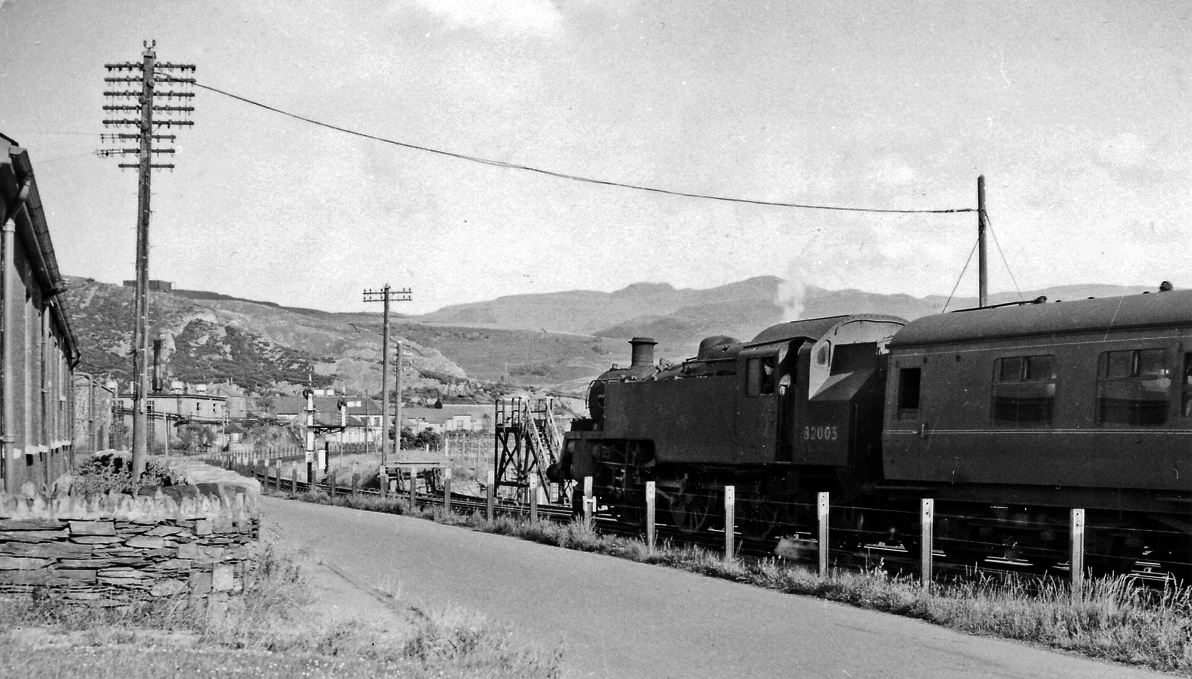 Pwllheli - Chester train at Penrhyndeudraeth. View eastward from the station platform up the Vale of Ffestiniog to Arenig Fawr (2,800 ft.) in the distance. The 17.30 from Pwllheii, headed by BR Standard 3MT 2-6-2T No. 82005 (built 5/52, withdrawn 9/65), is following the Cambrian Coast line, which will almost immediately swing right here and cross the estuary on a bridge shared with the toll-road. After Barmouth, at Morfa Mawddach it will turn east up to Dolgelley (now Dolgellau) and continue up the ex-GW line via Bala Junction and Llangollen to Ruabon, then Wrexham and eventually reach Chester at 22.35!